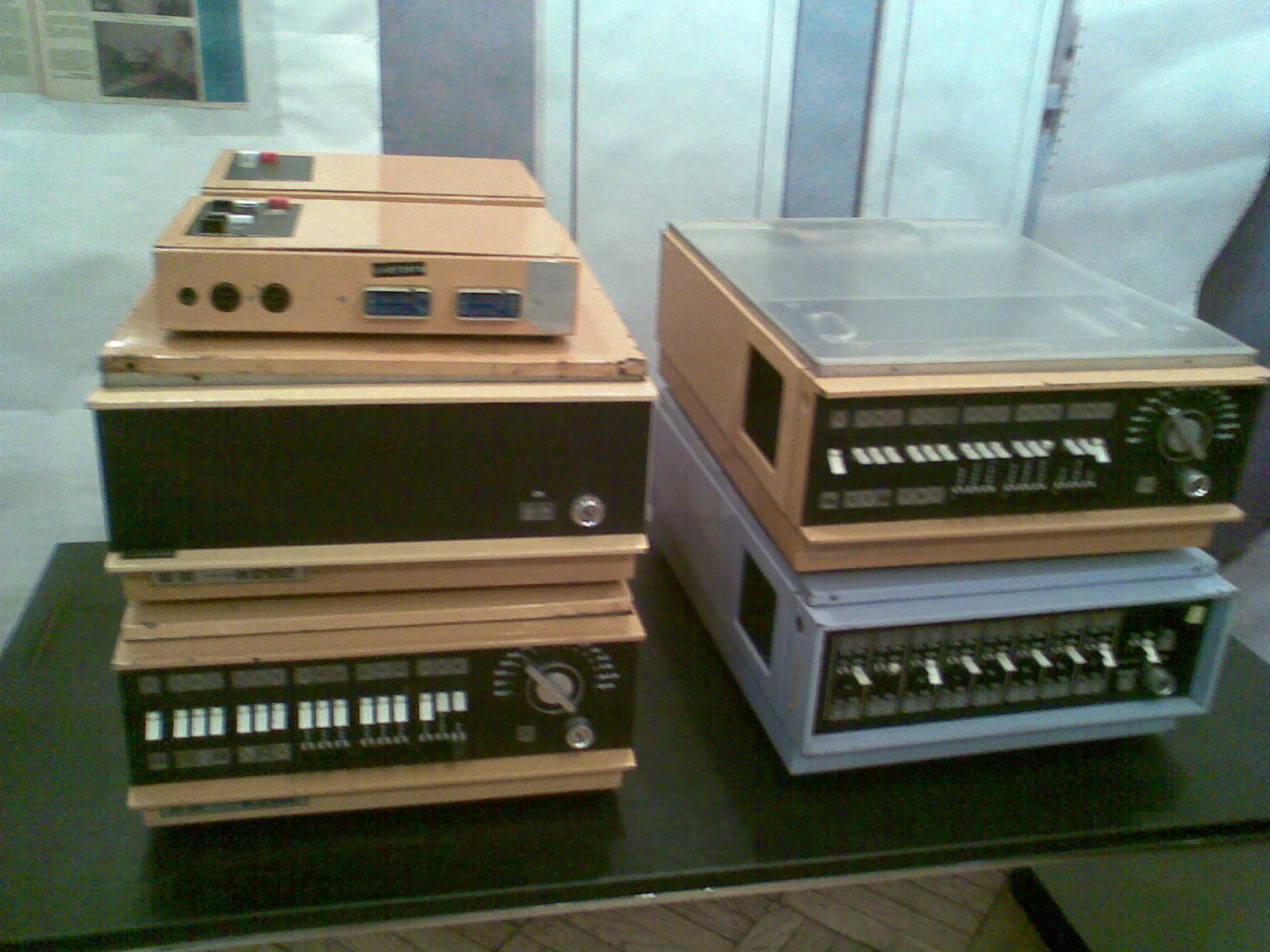 K-202 minicomputer built in 1972 in Poland by Jacek Karpiński. Asynchronous, with 64 KB RAM and 300000 operations per second was faster than first American PCs. Never in mass production. Exhibit of Warsaw Museum of Technology (Muzeum Techniki)